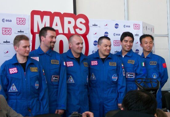 Alexandr Egorovich Smoleevskiy (Александр Егорович Смолеевский), Romain Charles, Alexey Sergeyevich Sitev (Алексей Сергеевич Ситёв) , Sukhrob Rustamovich Kamolov (Сухроб Рустамович Камолов), Diego Urbina, Wang Yue (王跃), crew of the 3rd stage of the the Mars-500 mission, before starting the simulated round trip to Mars. Mars-500 was a psychosocial isolation experiment conducted between 2007 and 2011 by Russia, the European Space Agency and China, in preparation for an unspecified future crewed spaceflight to the planet Mars.The experiment's facility was located at the Russian Academy of Sciences' Institute of Biomedical Problems (IBMP) in Moscow, Russia.